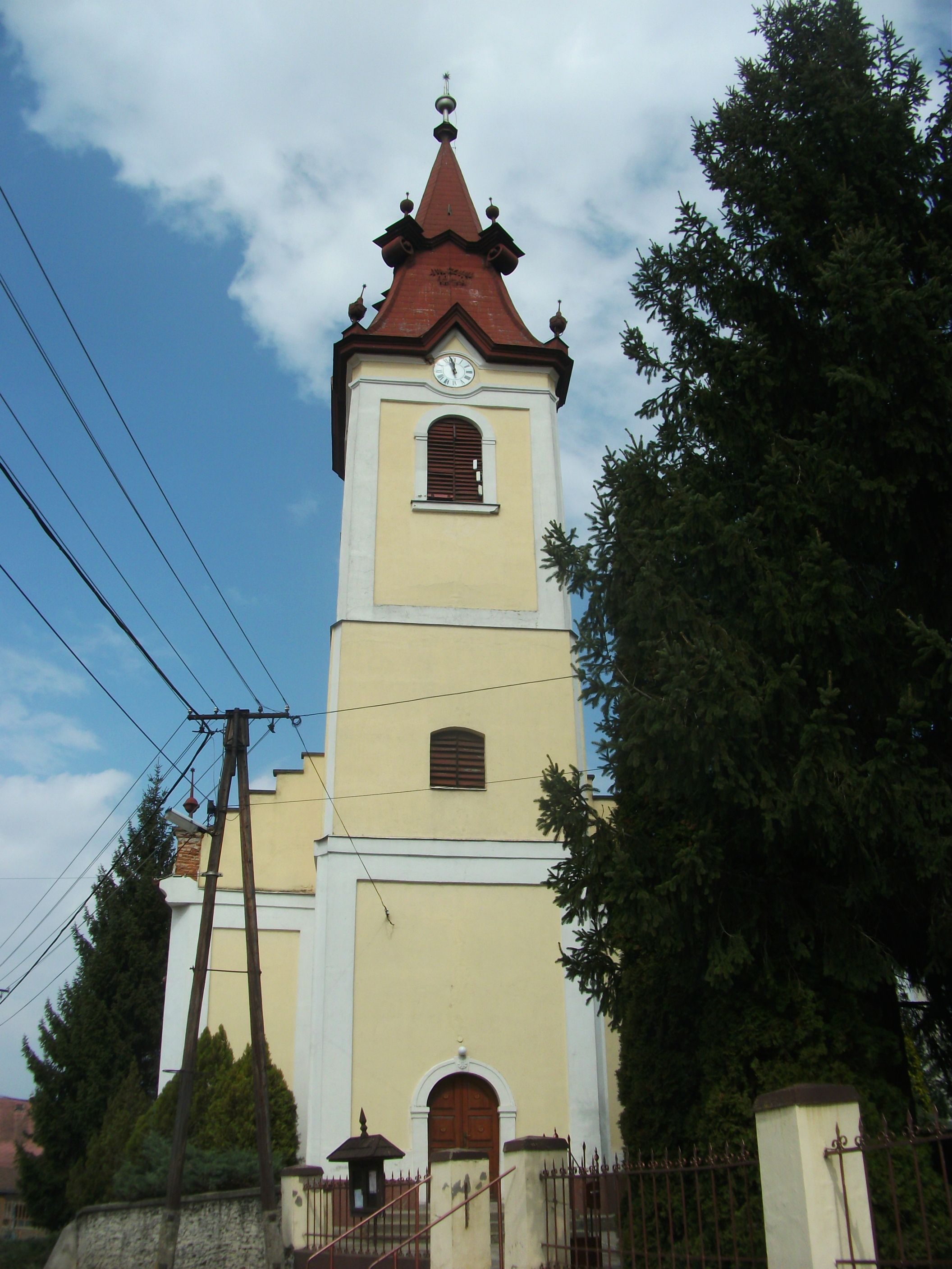 Reformed Church Of Cigánd in 2015